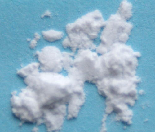 Germanium oxide